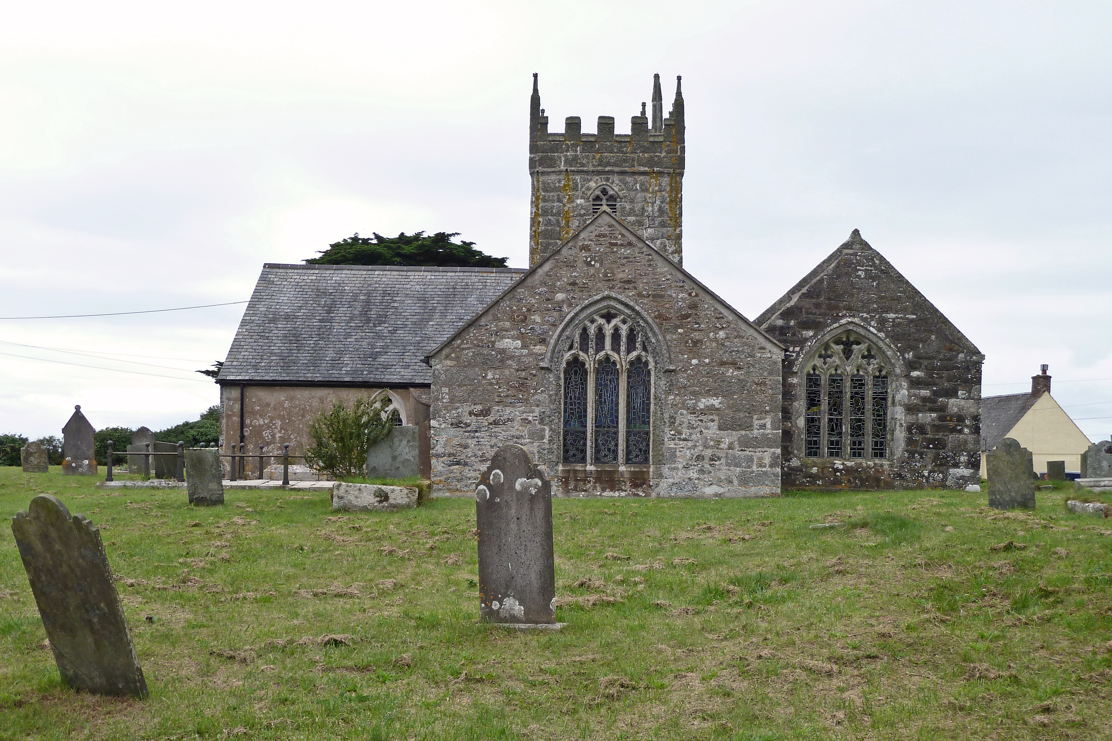 St Corentin, Cury